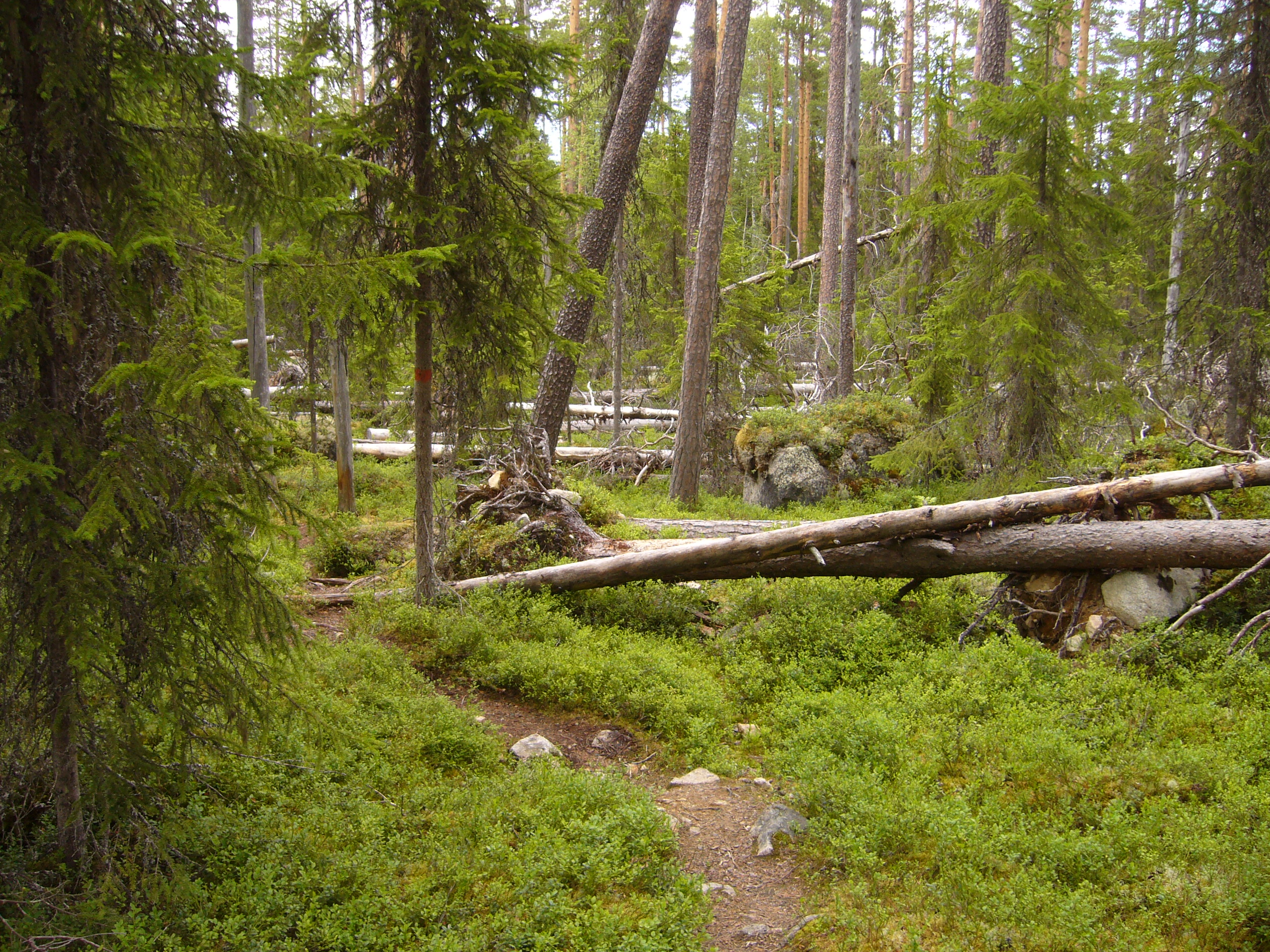 The forest in Hamra National Park in Dalarna, Sweden.